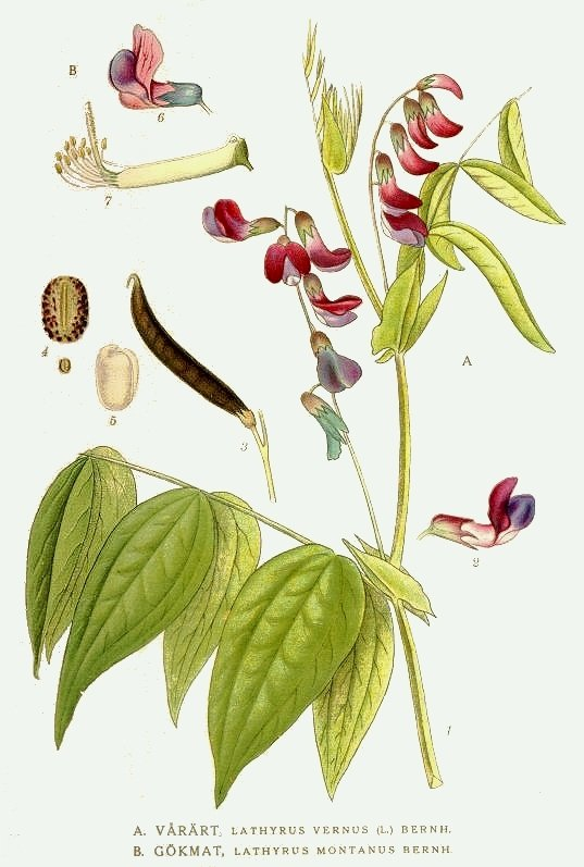 A. Lathyrus vernus (L.) Bernh. B. Lathyrus linifolius subsp. montanus (Bernh.) Bässler, syn. Lathyrus montanus Bernh. Original Description A. Vårärt, Lathyrus vernus (L.) Bernh. B. Gökmat, Lathyrus montanus Bernh.